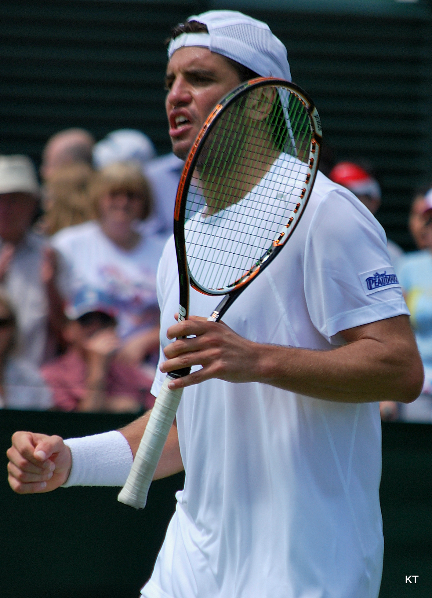 Malek Jaziri celebrates his comeback after losing the first two sets during his first round match with Jurgen Zopp on Day 2 of Wimbledon 2012. Jaziri won 4-6, 4-6, 6-3, 6-4, 9-7.